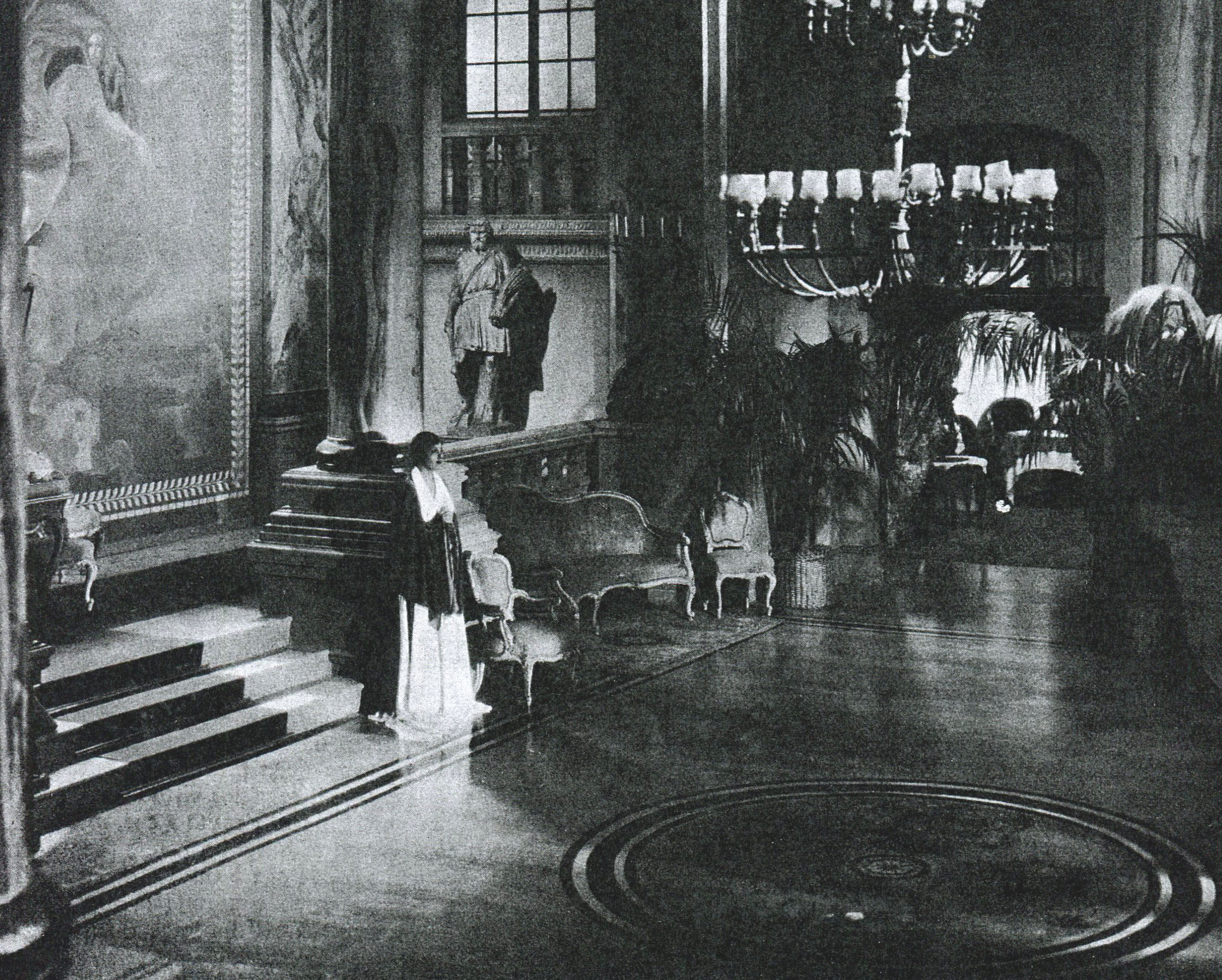 Isa Miranda ne Il diario di una donna amata (Maria Baschkirtseff) - regia di Hermann Kosterlitz - produz Astra Film - Tobis Vienna -1936